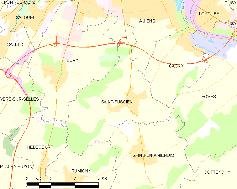 Map of French municipality Saint-Fuscien